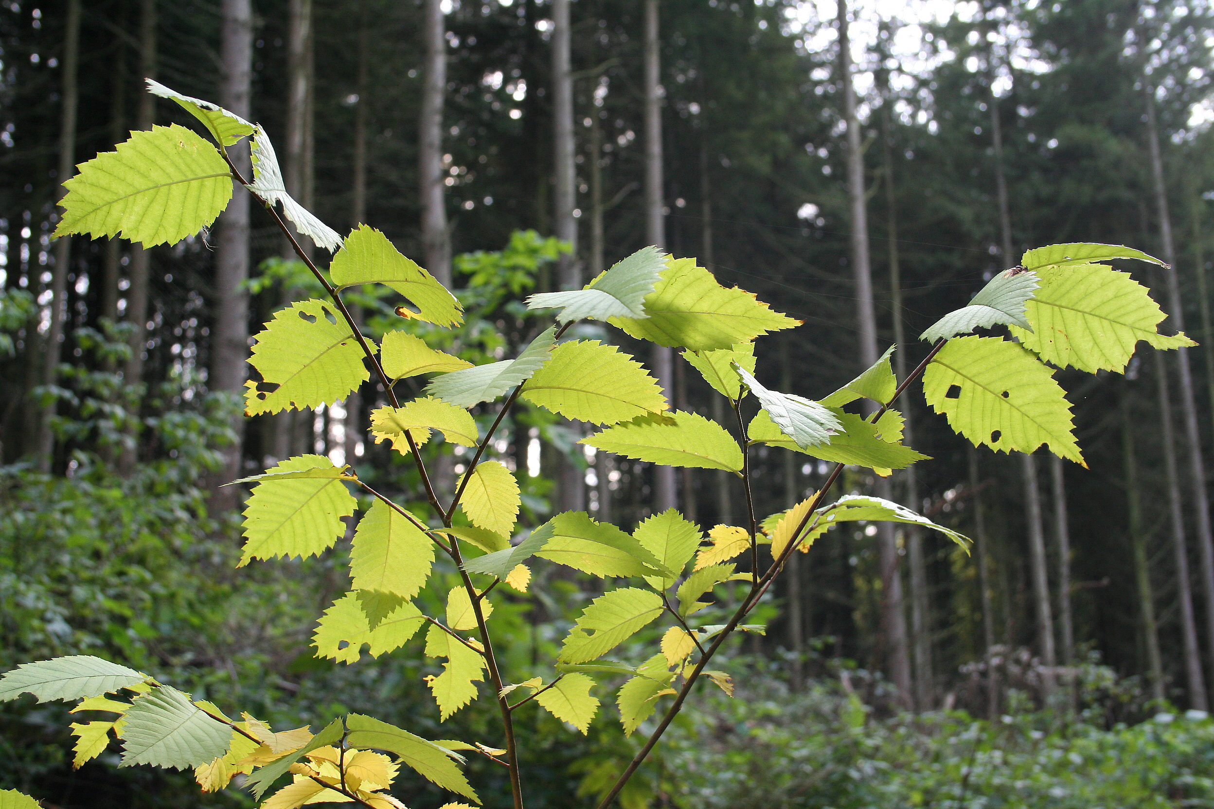 American elm (Ulmus americana) Precise location : (S37) Arboretum Robert Lenoir - Rendeux (Belgium). Walon: Ôrme d’Amèrike (Ulmus americana) Place rècta : (S37) Arboretum Robert Lenoir – Rindeu (Bèljike).